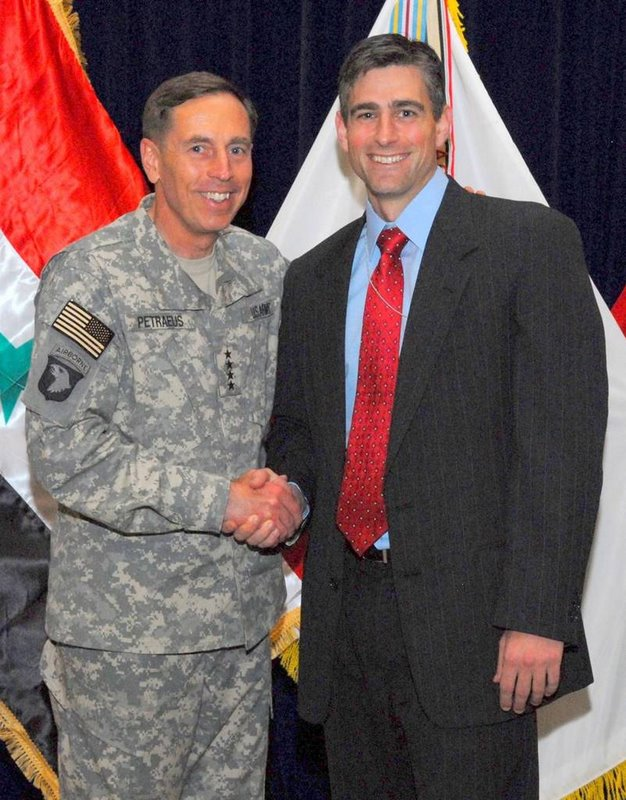 Photo of Senator Michael Baumgartner and General David Petraeus